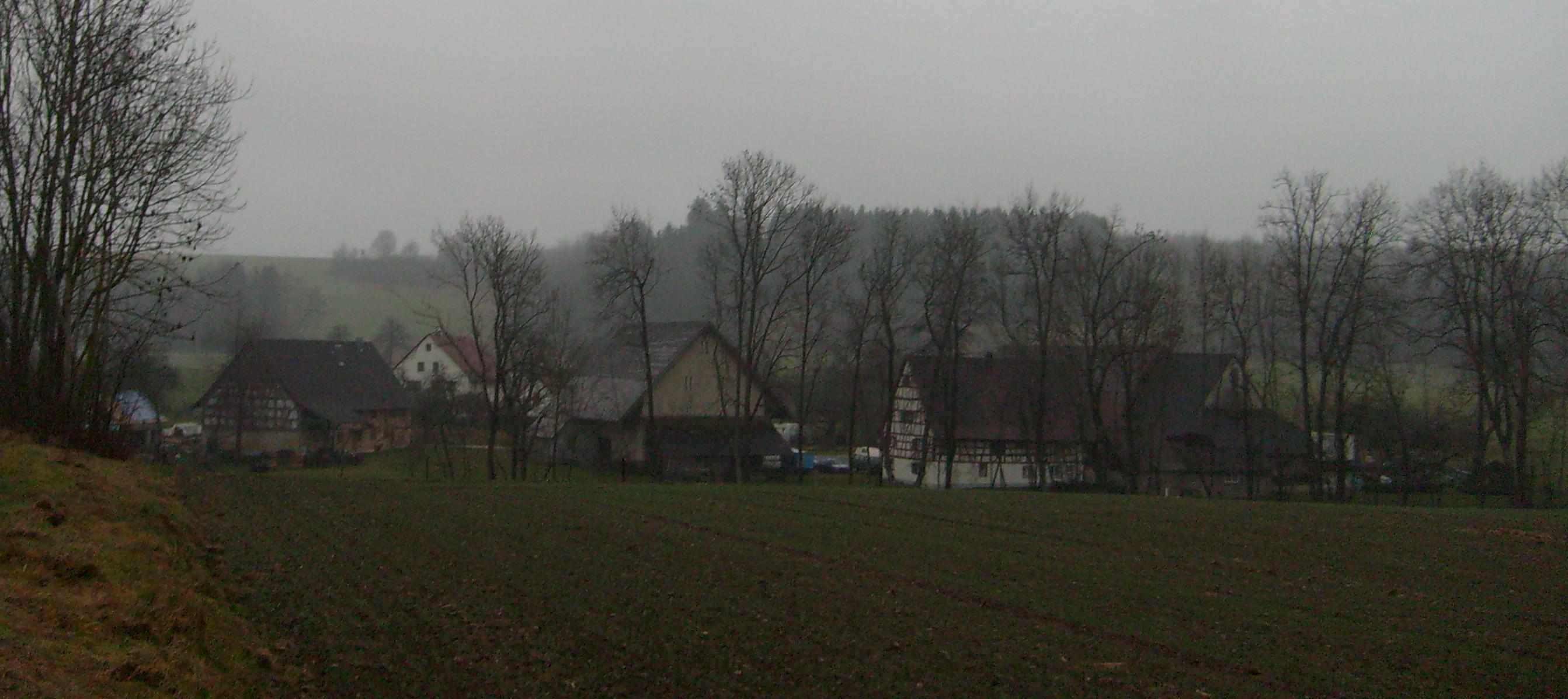 Andelsbach, a hamlet of Denkingen, a village in the City of Pfullendorf in the district of Sigmaringen in Baden-Württemberg in Germany.